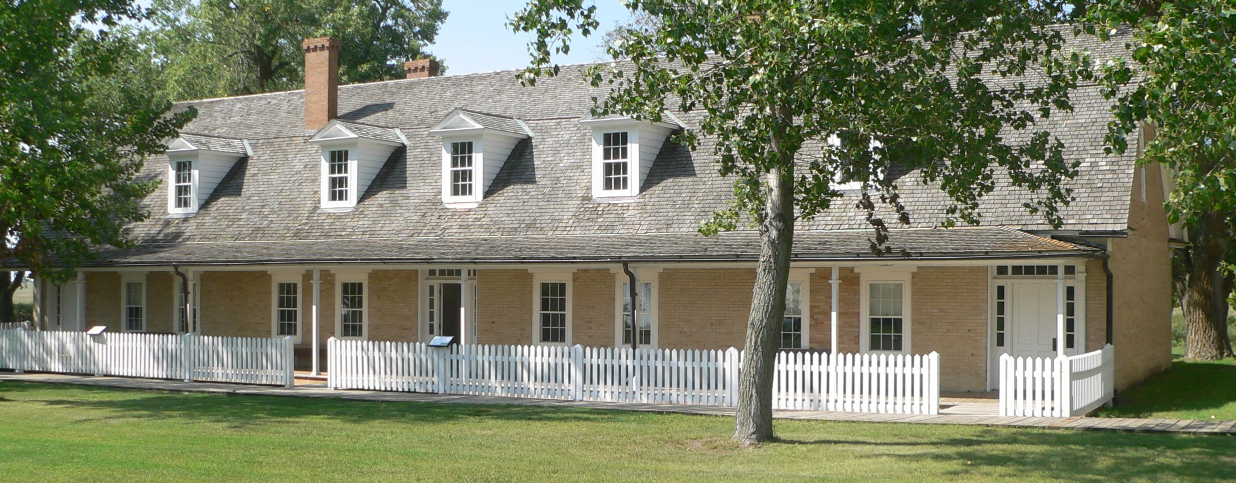 Fort Sisseton State Park, in Marshall County, South Dakota: officers' quarters, seen from the east.